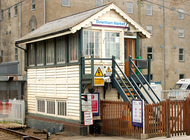 Signal box, Downham Market railway station The 'box stands beside the level crossing at the up (south) end of Downham Market station. The brick building behind is Heygate's flour mill.